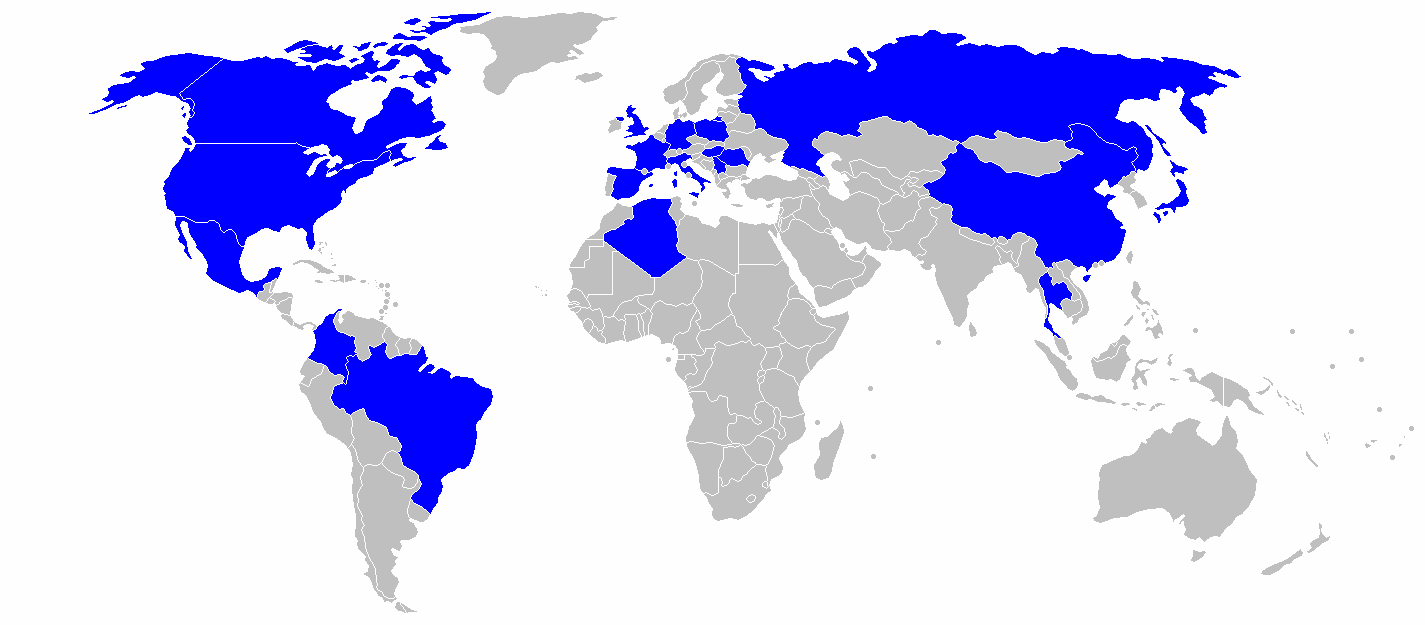 World locations of Michelin factories